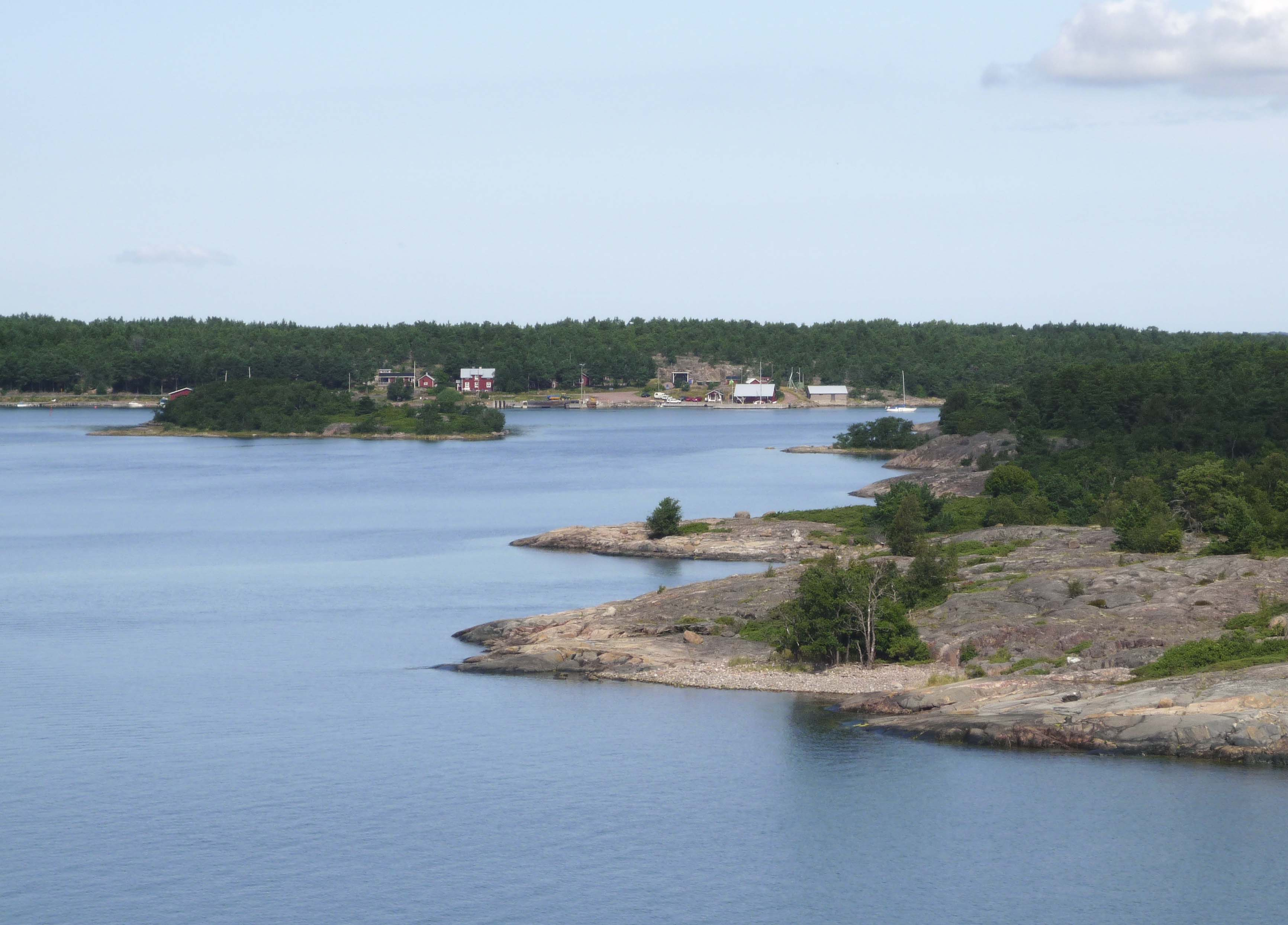 View over southern part of Sottunga